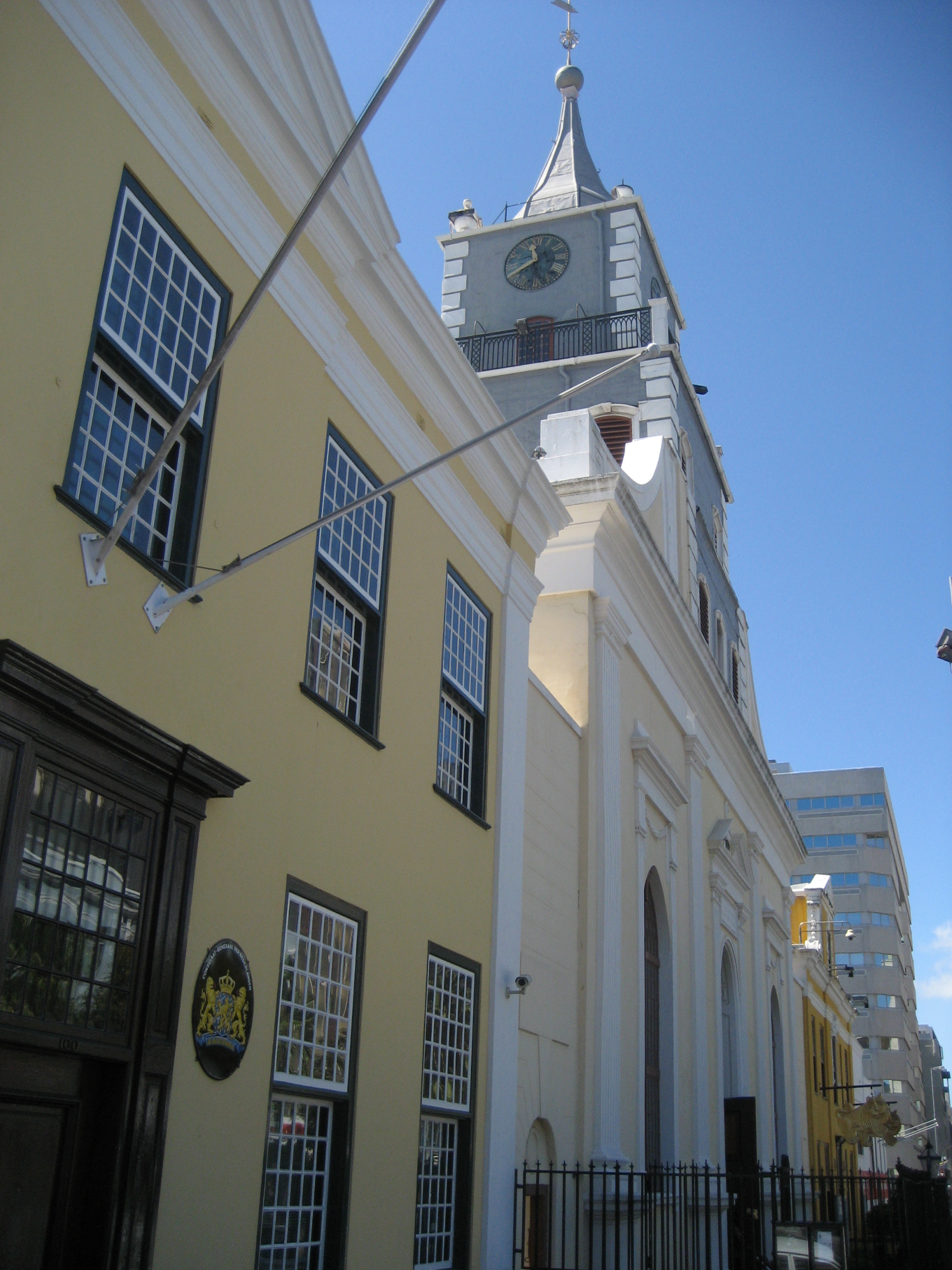 Lutheran Church, Strand Street 98, Cape Town 8001, South Africa & Consulate of the Netherlands, Sexton's House, Strand Street 100, Cape Town